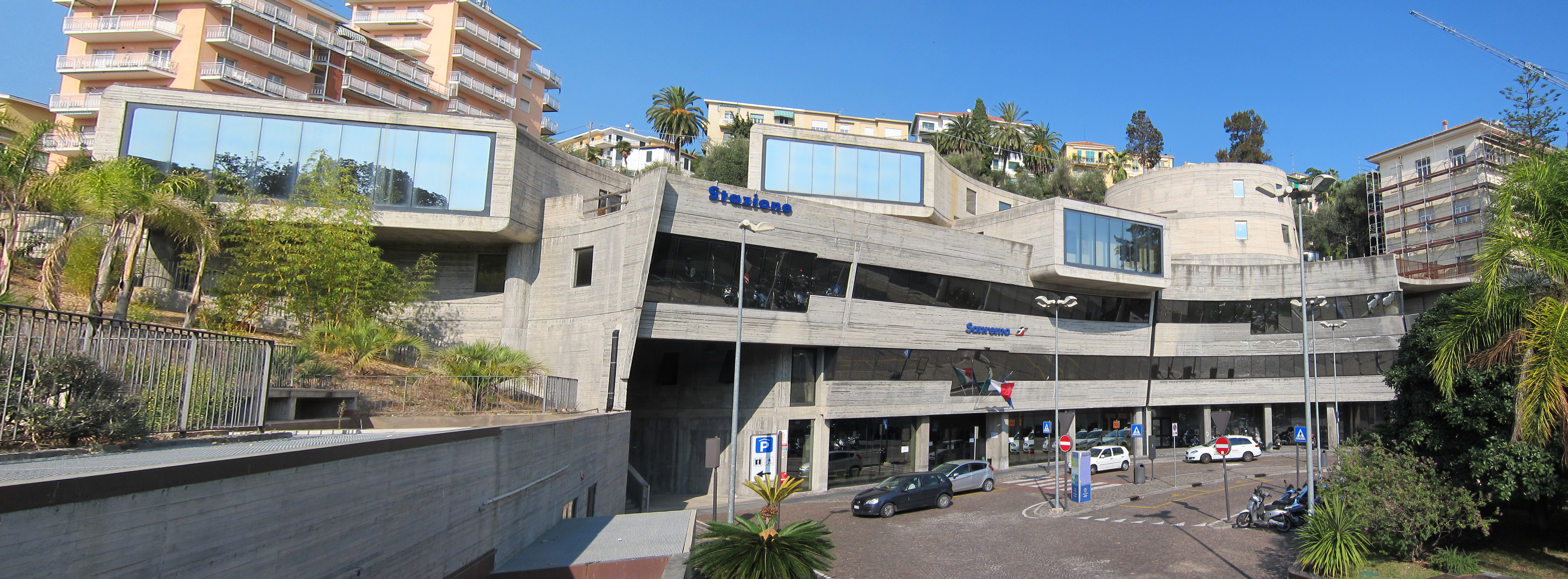 Railway Station building in Sanremo, Italy